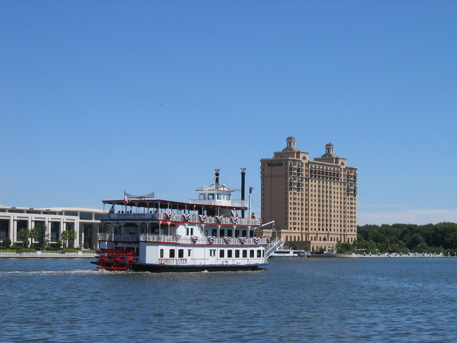 Georgia Queen riverboat cruising down the Savannah River, past the Savannah International Trade & Conference Center on Hutchinson Island.